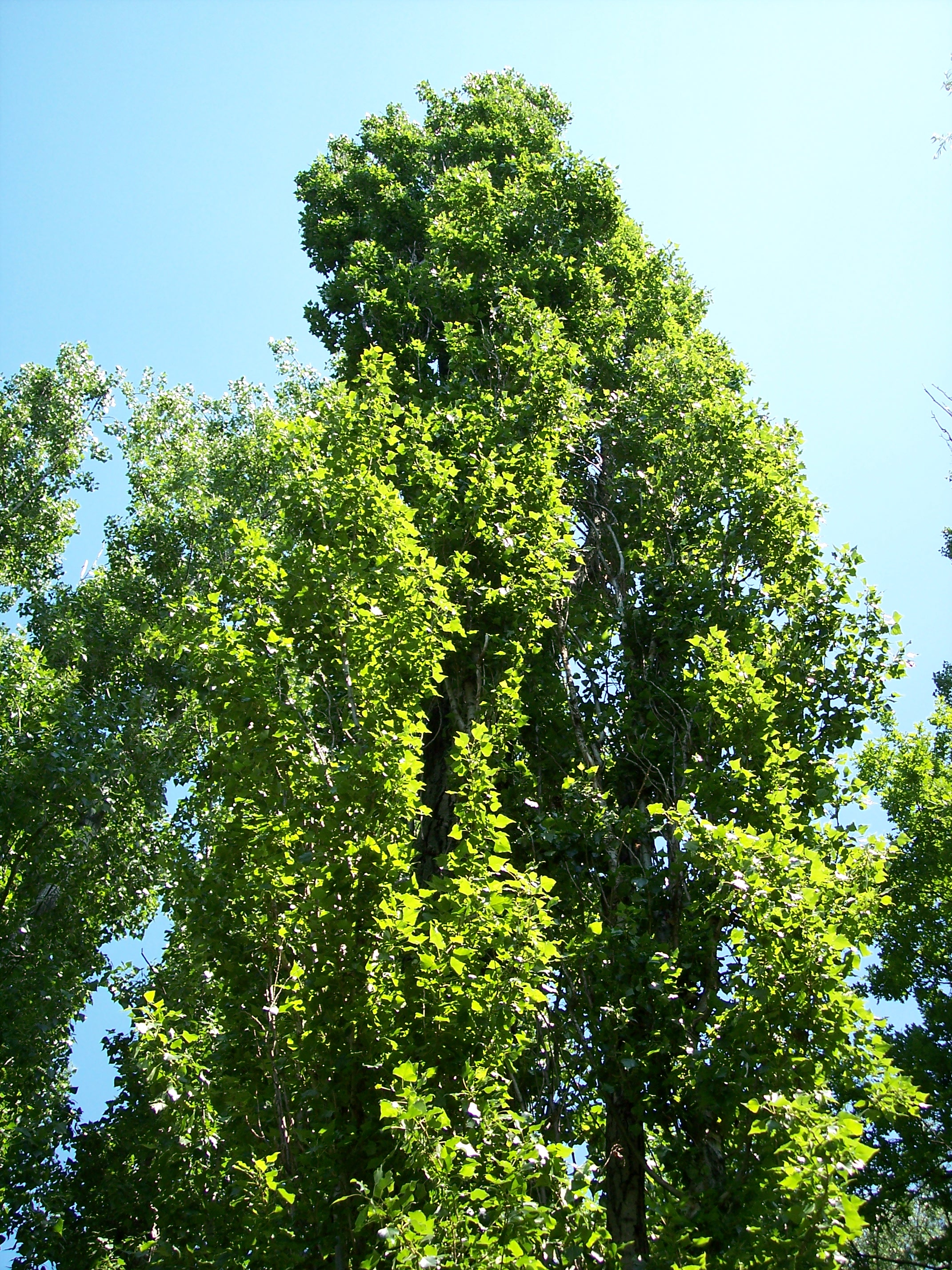 Black Poplar (Populus nigra) in Békés town (Hungary)